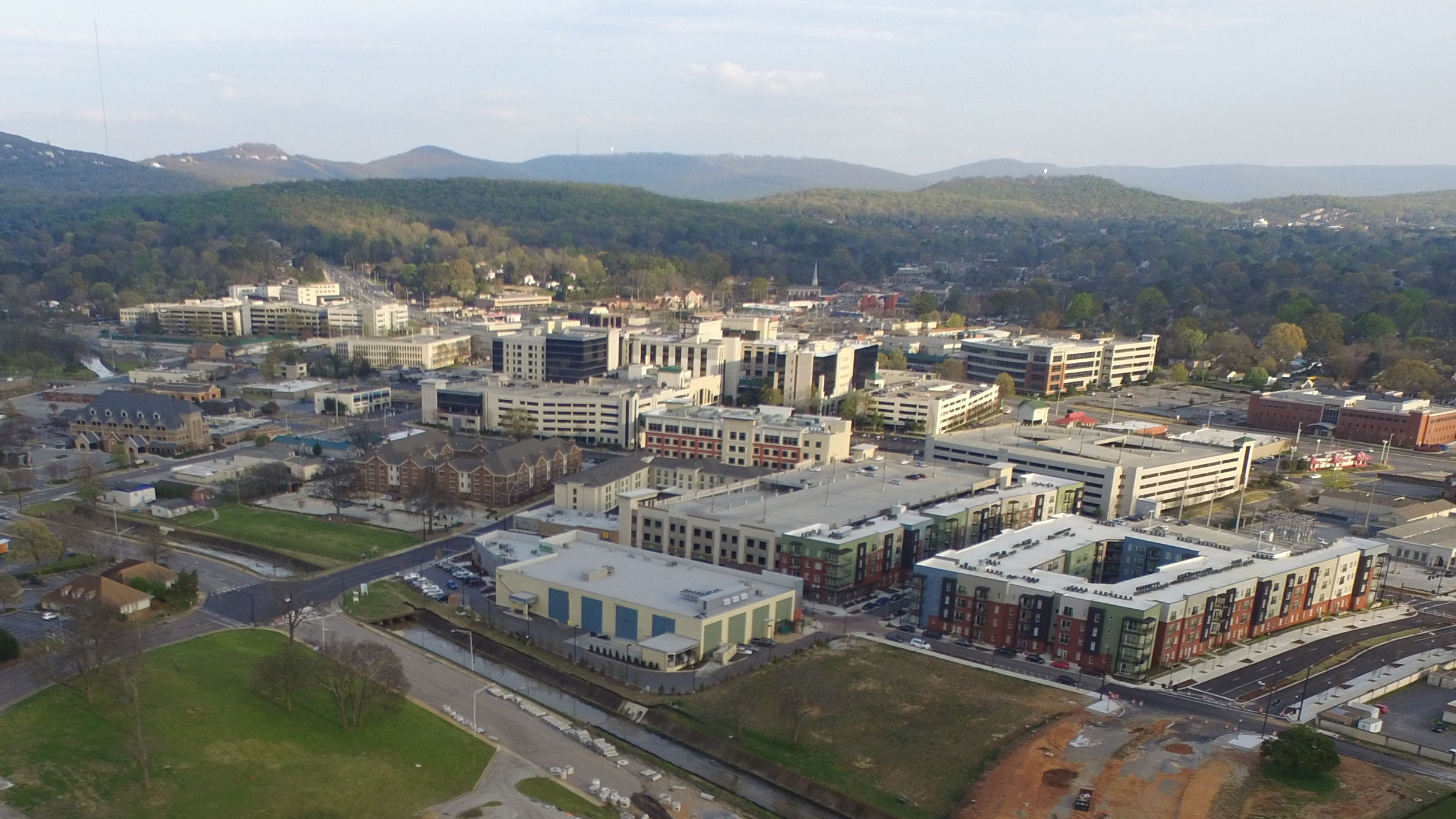 The Medical District of Huntsville, Alabama. Most of the large buildings are part of the Huntsville Hospital System.